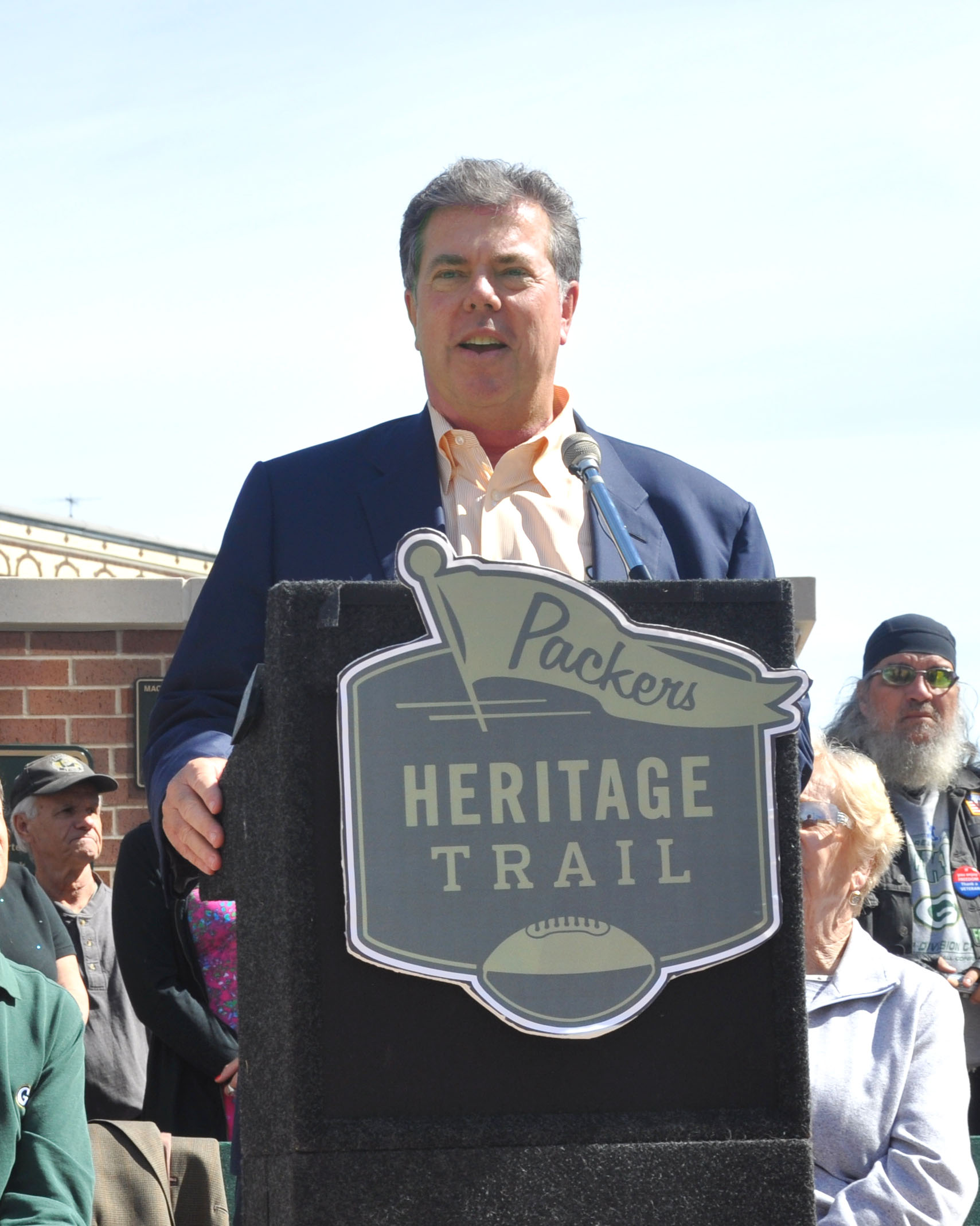 Edward N. Martin speaking at the dedication of the Paul Hornung statue on the Green Bay Packers Heritage Trail